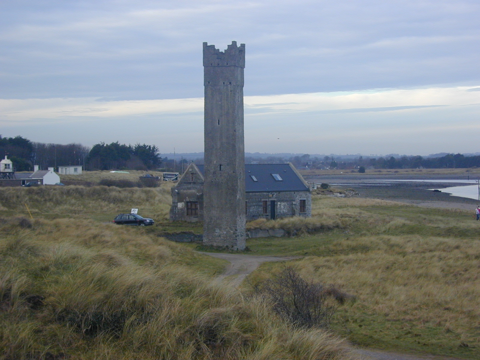 This is a picture of the Maiden tower - Mornington, County Meath